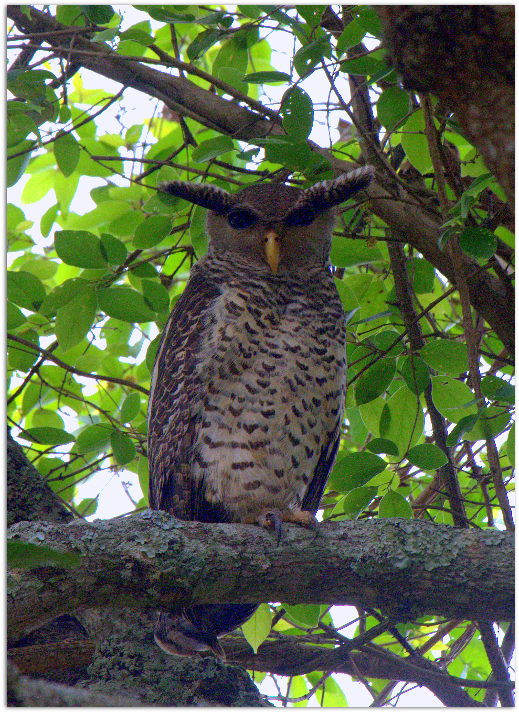 Spot-bellied Eagle-Owl (Bubo nipalensis).